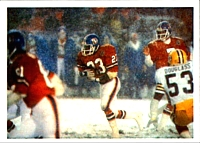 A football card from the 1986 Jeno's Pizza NFL football card stickers set of Denver Broncos running back Sammy Winder rushing the ball against the Green Bay Packers during an October 15, 1984 home game at Mile High Stadium. The card is numbered #48 in the set. The back of the card reads: BRONCOS PUT THE GAME ON ICE EARLY Denver running back Sammy Winder slides into the open as the Broncos team up with Old Man Winter to beat Green Bay 17-14 in 1984. As the two teams played ina Monday night blizzard, the Packers fumbled the wet ball on their first two plays, and the Broncos returned both for touchdowns and a quick 14-0 lead. Green Bay never caught up.